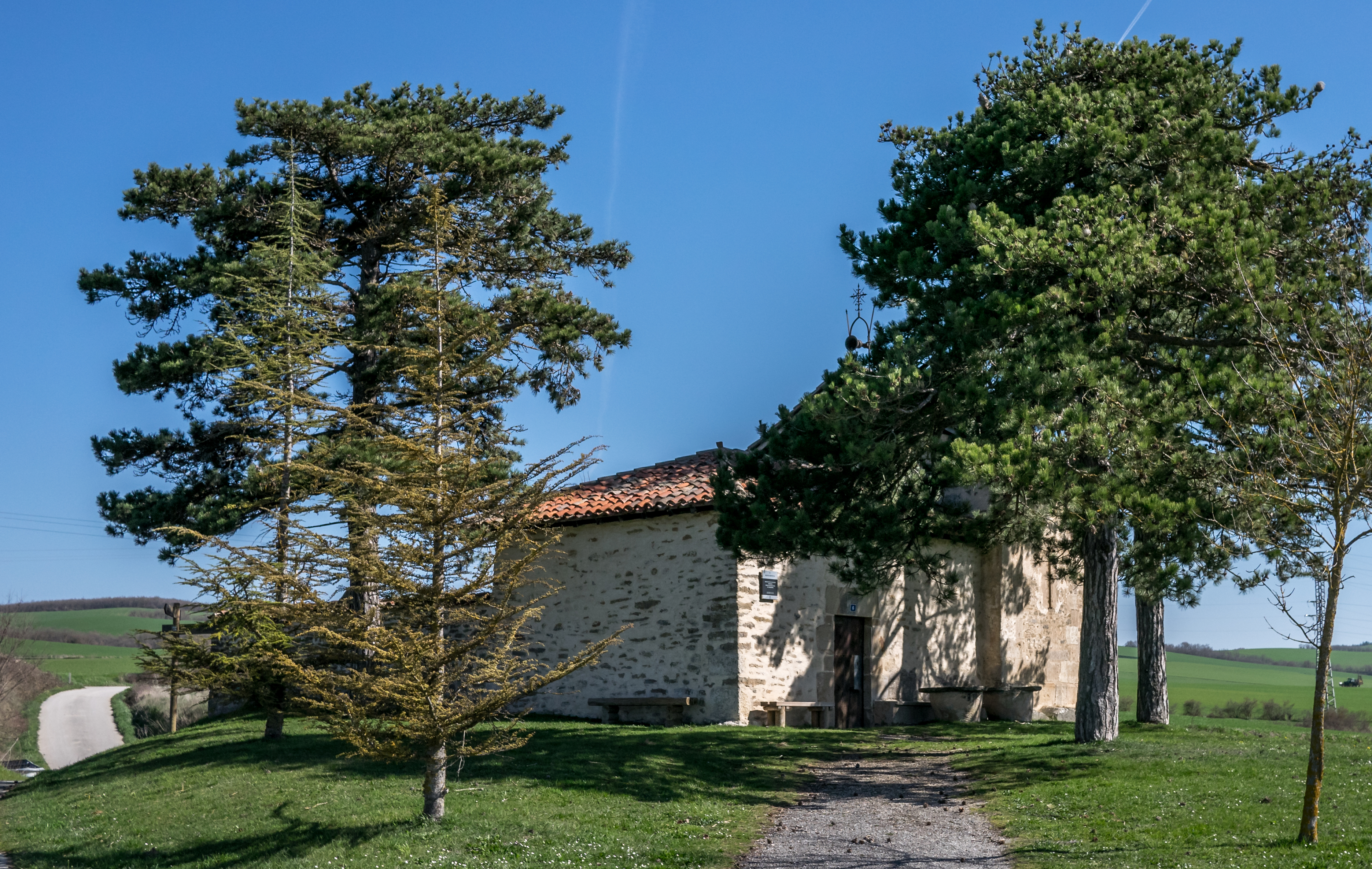 Chapel of San Juan de Arrarain. Elburgo, Álava, Basque Country, Spain